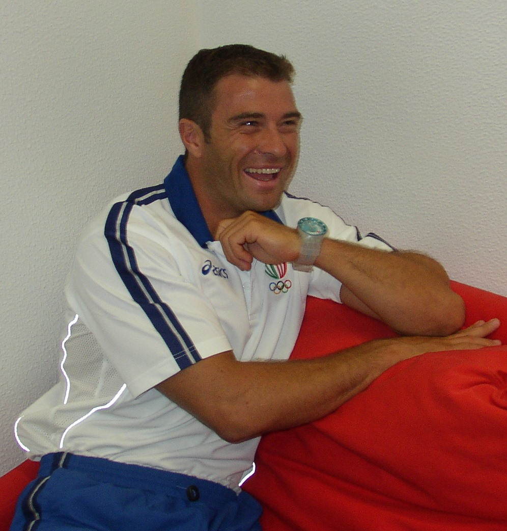 Fencer Antonio Rossi in Milan in 2004